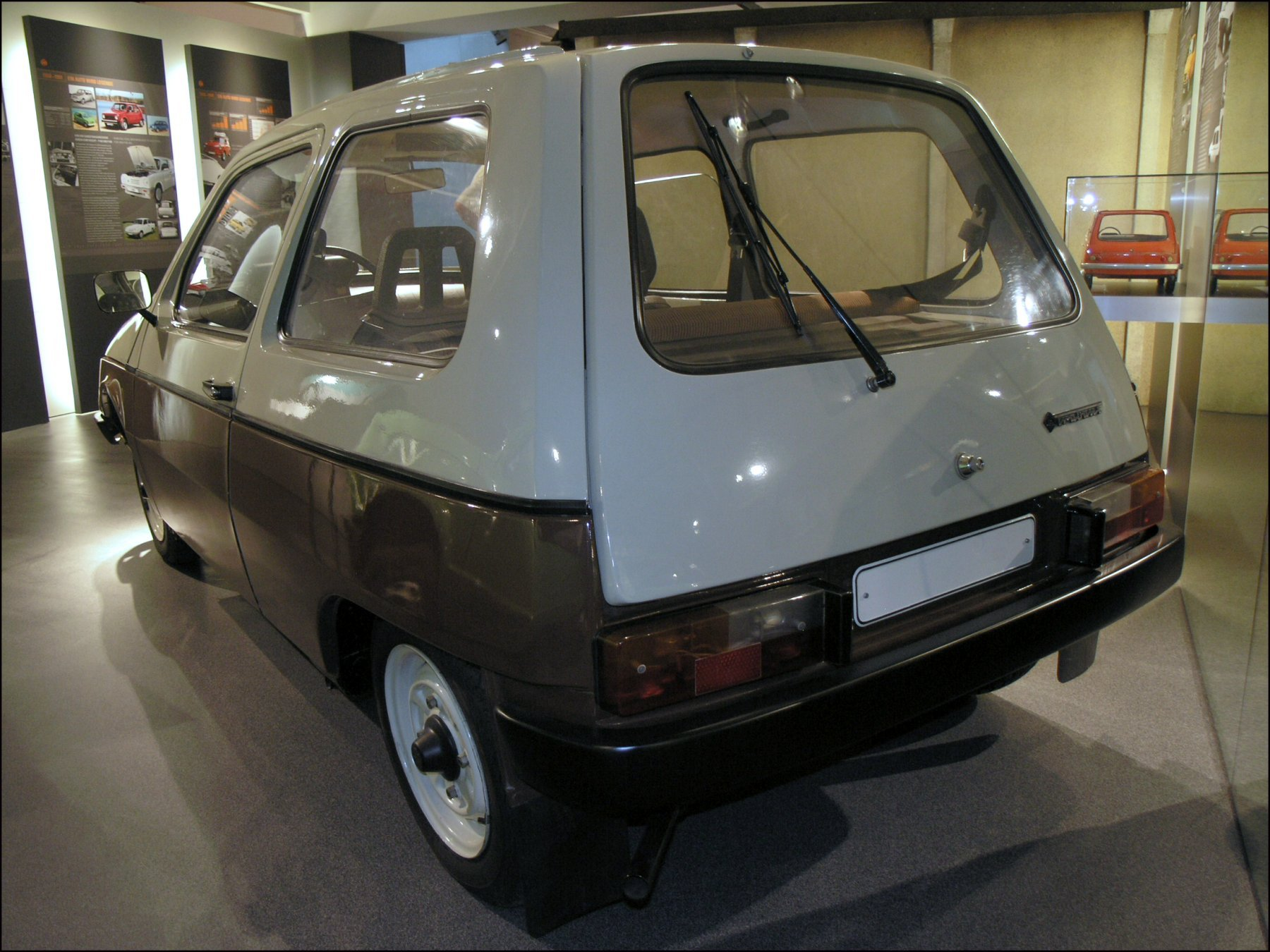 Trabant prototype